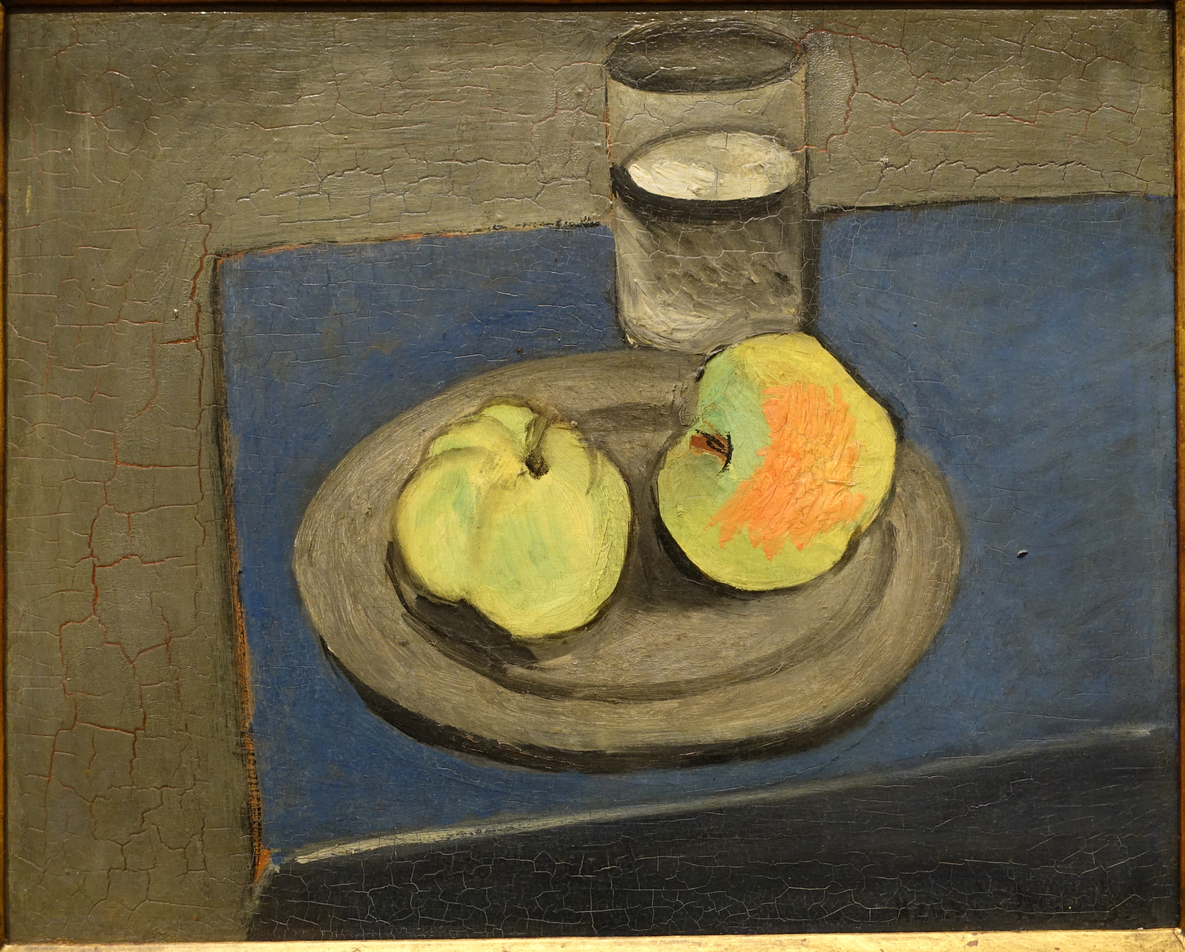 Exhibit in the Fogg Art Museum, Harvard University, Cambridge, Massachusetts, USA. This artwork is in the public domain because the artist died more than 70 years ago.